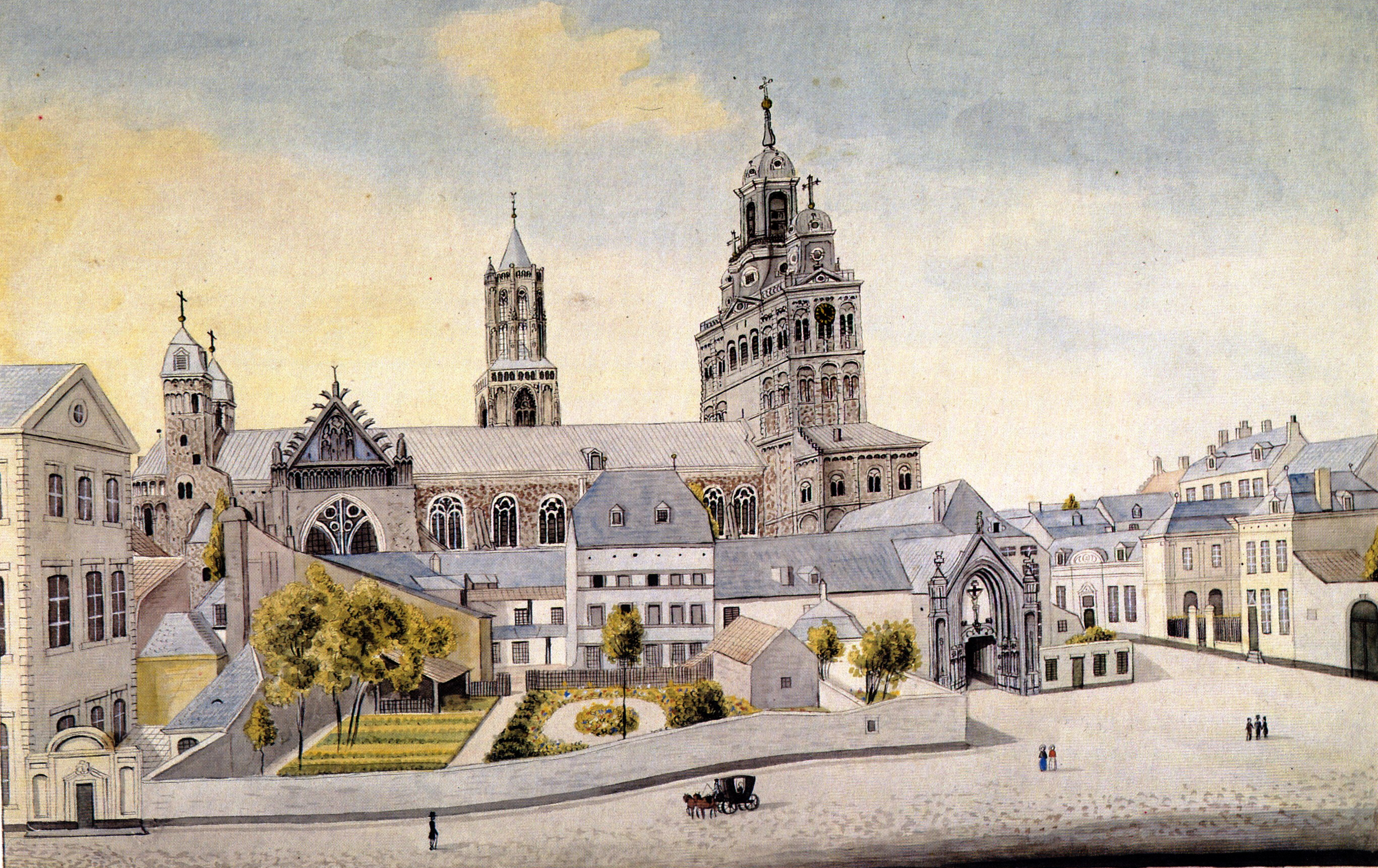 View of Keizer Karelplein in Maastricht, the Netherlands with the church of Saint Servatius seen from the North. Watercolour by Philippus van Gulpen, ca 1839.